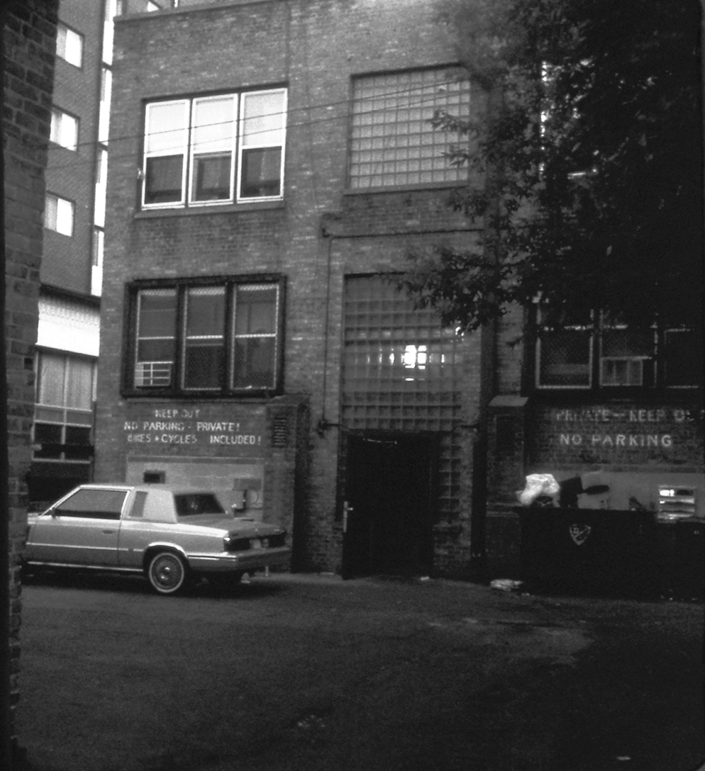 Rear view of offices of Badger Herald newspaper at University of Wisconsin-Madison, at 638 State St. Editorial offices on left, second floor, production offices on right, second floor